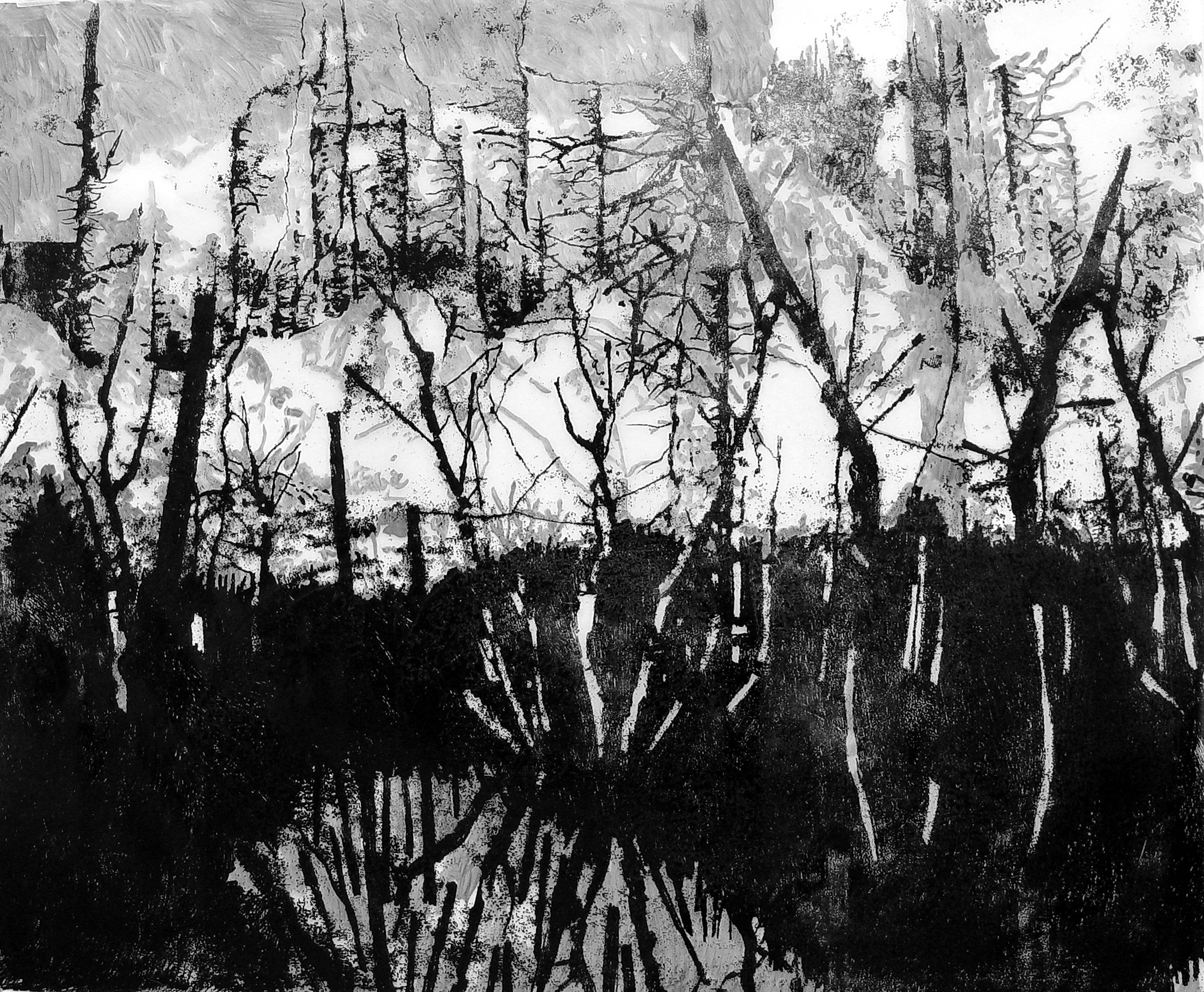 Erika Seywald, Landscape, Oil color graphite on tracing paper, 2011